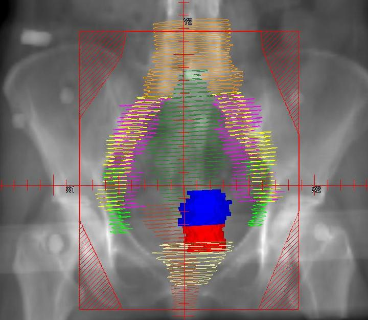 Example of an AP radiation therapy treatment field for Stage IB2+ Cervix used at Tufts/Brown residency program. Actual patient contours should guide field design. Superior border: L4/L5. If common illiac LN involvement, superior border should extend to L3/L4 or higher to cover the disease with 3 cm margin Inferior border: inferior edge of pubic ramus. If vaginal involvement, inferior border should extend 3-4 cm past the vaginal extent of the disease, as marked by a gold seed Lateral borders: ~2cm lateral to bony pelvis, in order to cover lymph nodes Red: cervix; Blue: uterus; Khaki: bladder; Brown: rectum Orange: common illiac LNs; Yellow: external illiac LNs; Light Green: obturator LNs; Purple: internal illiac LNs; Dark Green: presacral LNs Please see lateral field